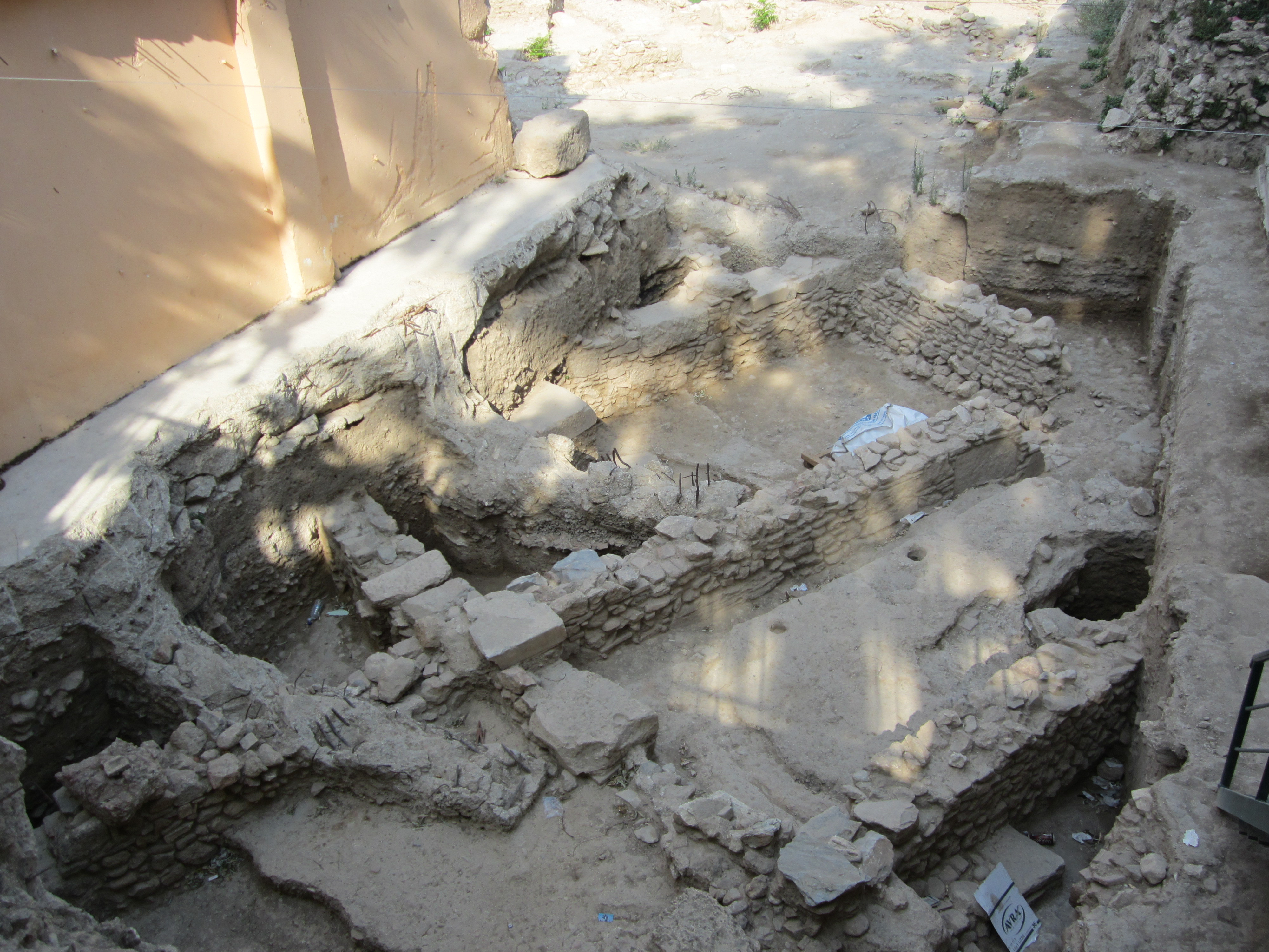 Archaeological site of Stoa Poikile, Ancient Agora of Athens.